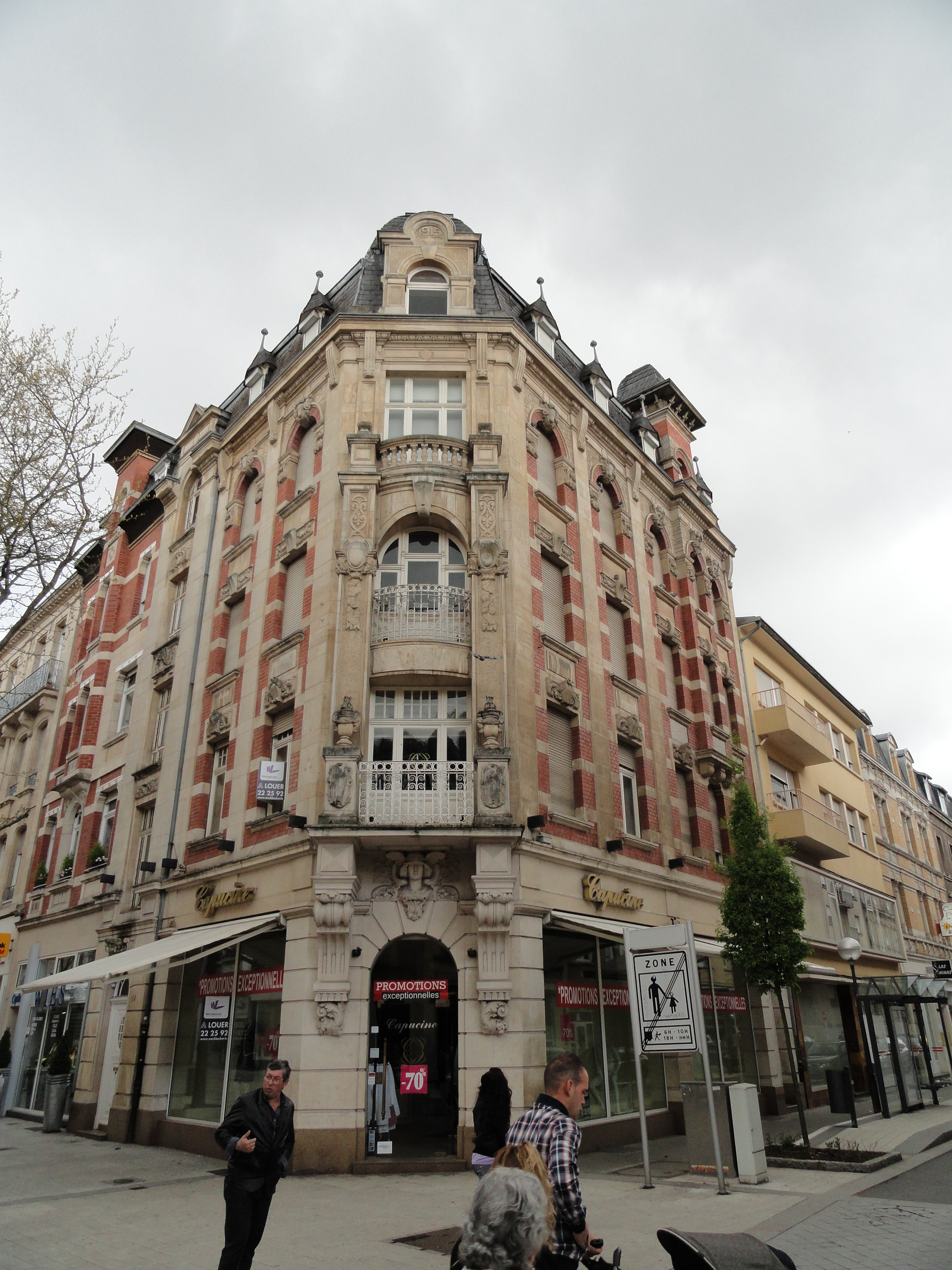 90 rue d'Alzette (1915) in Esch-sur-Alzette - Grand duché du Luxembourg